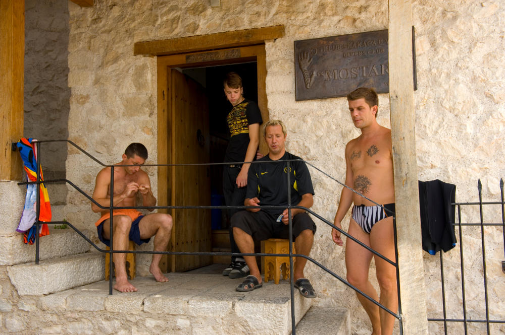 Professional Bridgedivers on "The Old Bridge" ("Stari Most" In Mostar. Sign: Klub Kakaca... / Divers Club "Mostar"